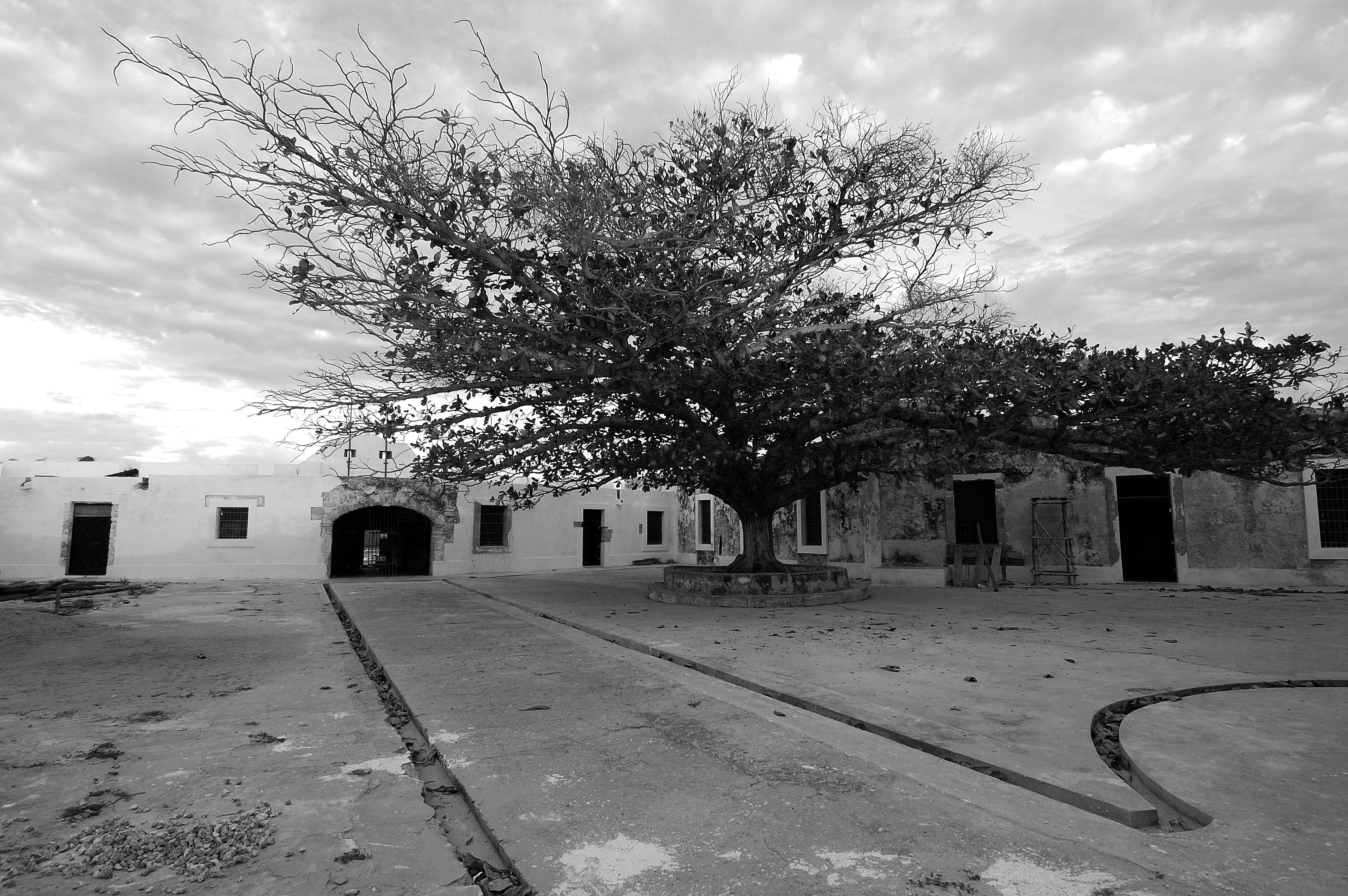 Interior of São João Batista do Ibo, Ibo island, Cabo Delgado province, Mozambique.